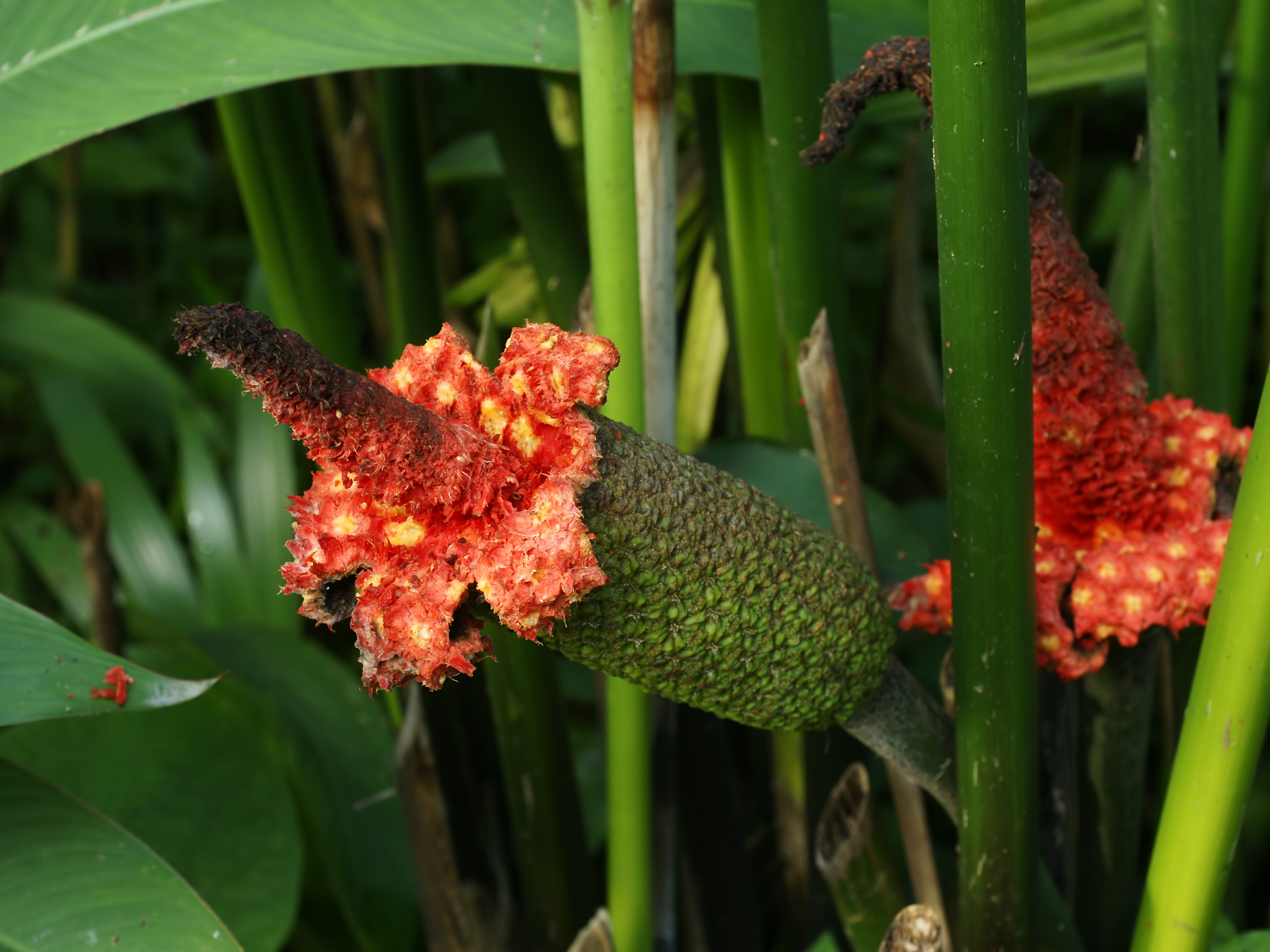 Panama-Hat Plant fruits near Las Horquetas, Costa Rica.